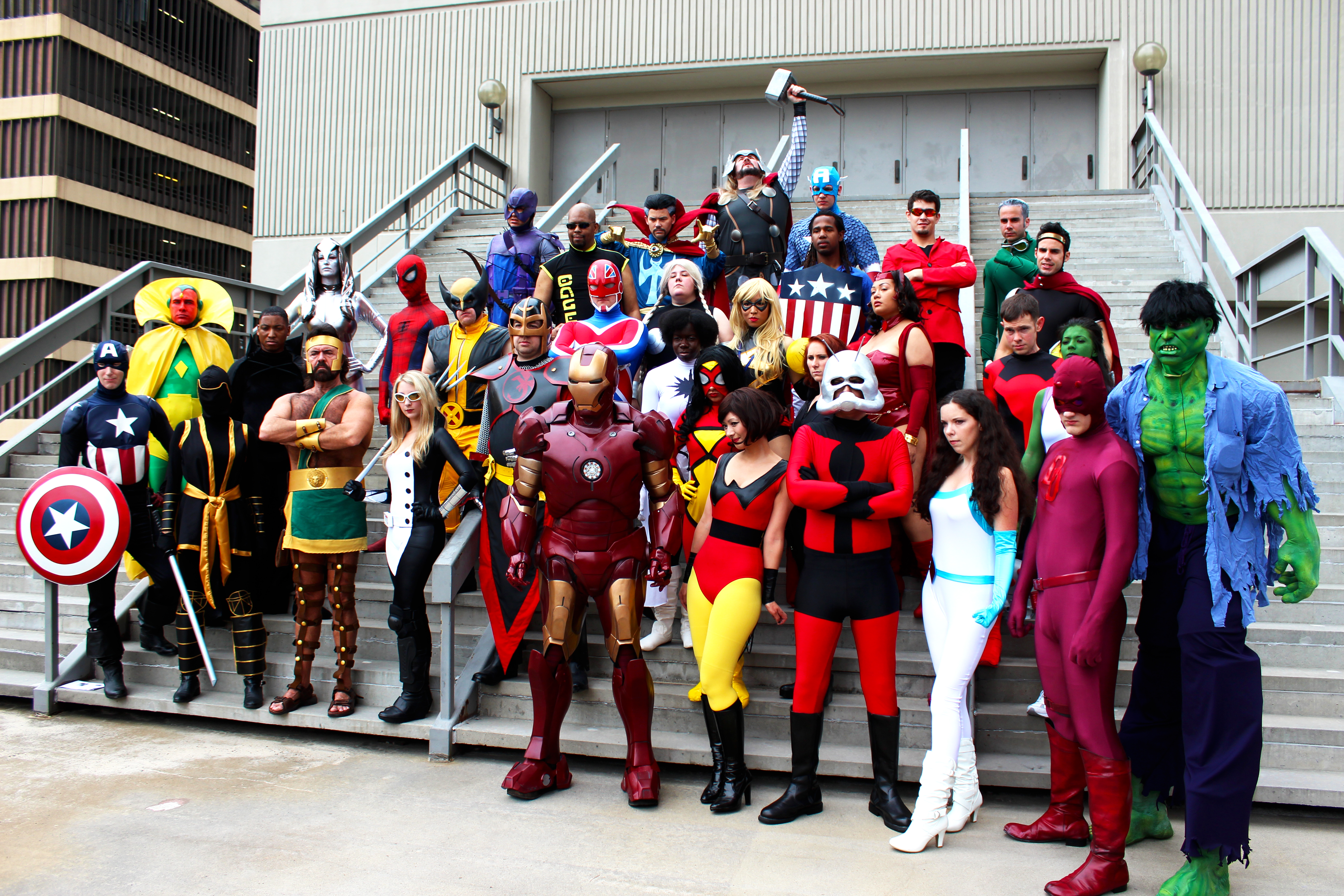 Cosplays of Avengers characters